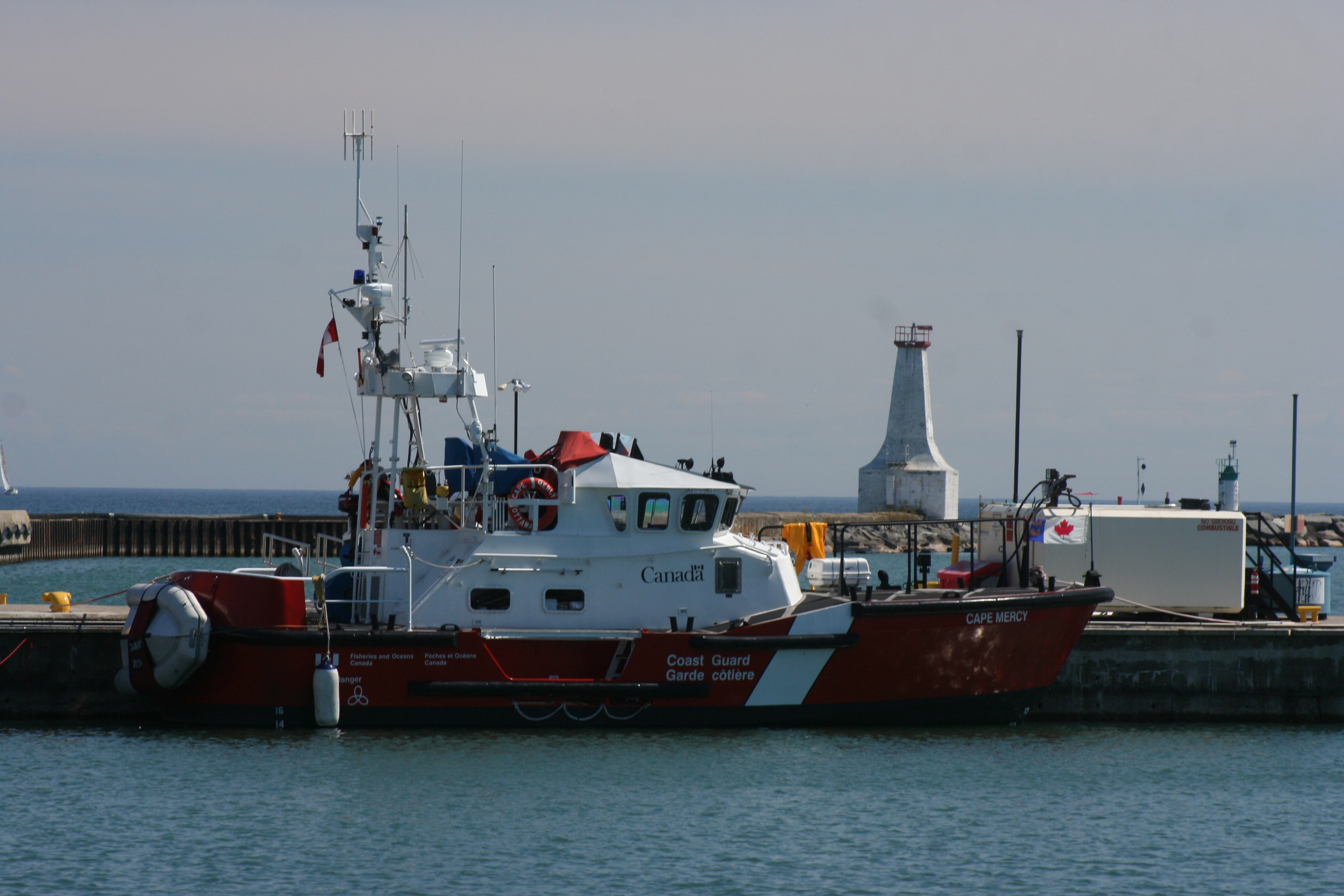 Canadian Coast Guard cutter moored in Cobourg Harbour